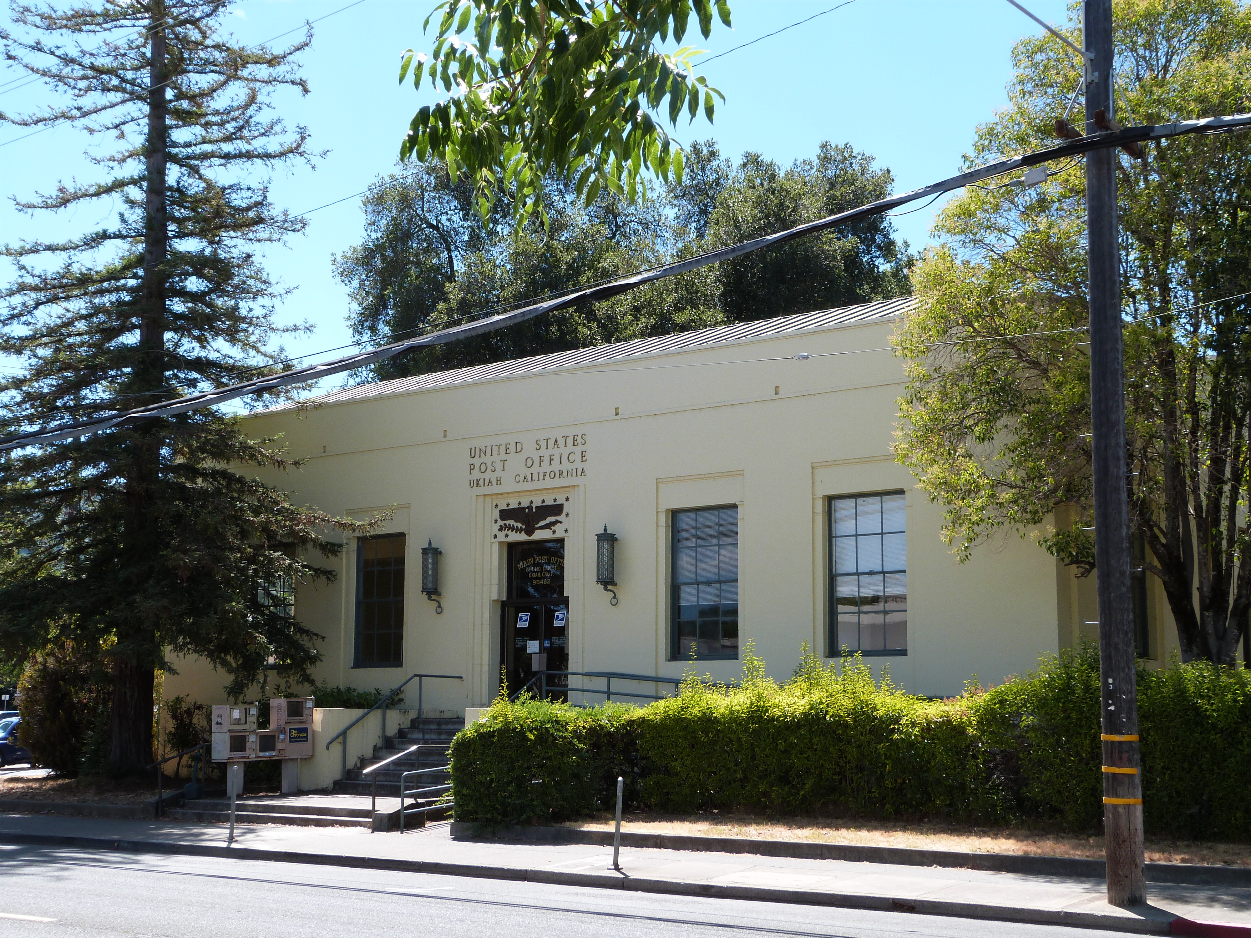 The historic Ukiah Main Post Office — located at 224 North Oak Street in Ukiah, Mendocino County, northern California. The 1937 building is listed on the National Register of Historic Places in Mendocino County.